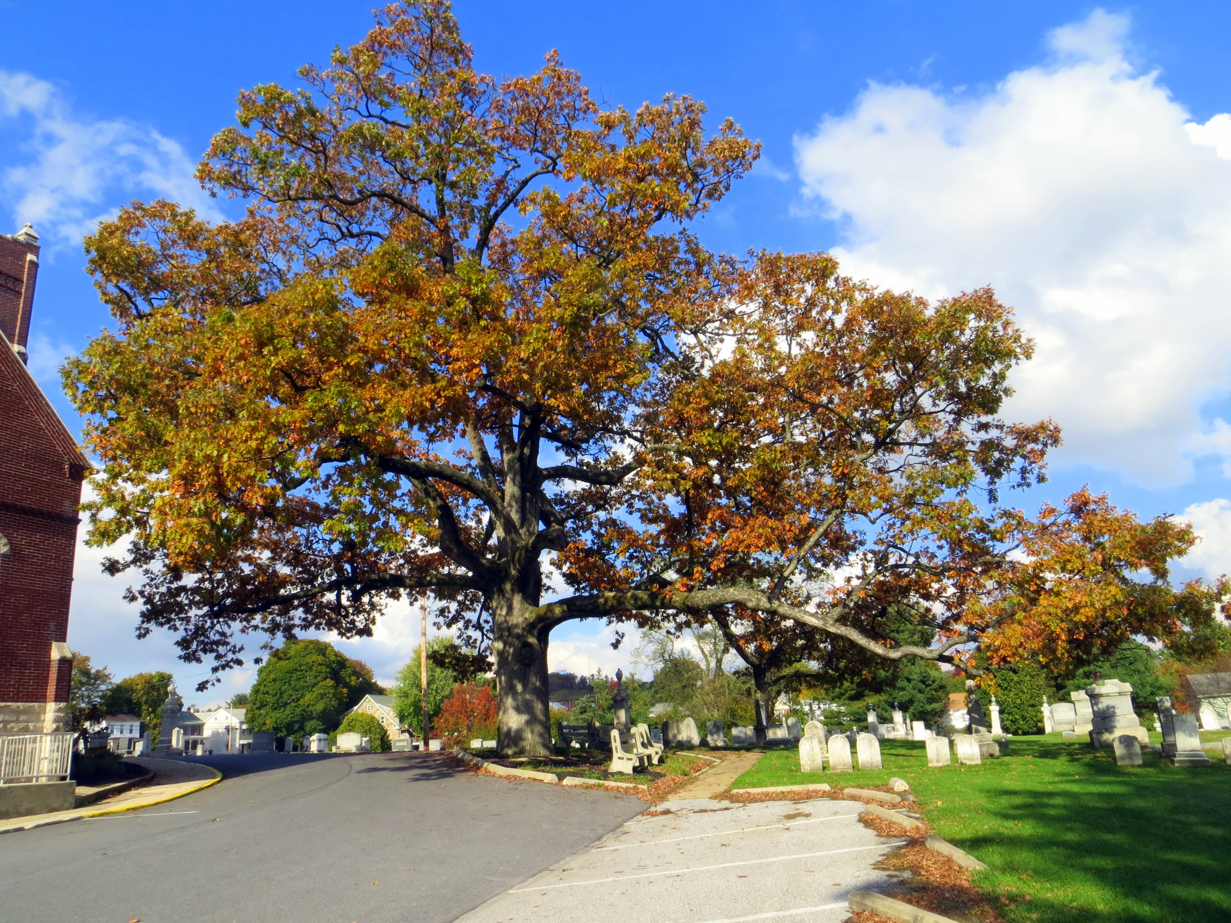 White Oak Tree, Manchester, Maryland